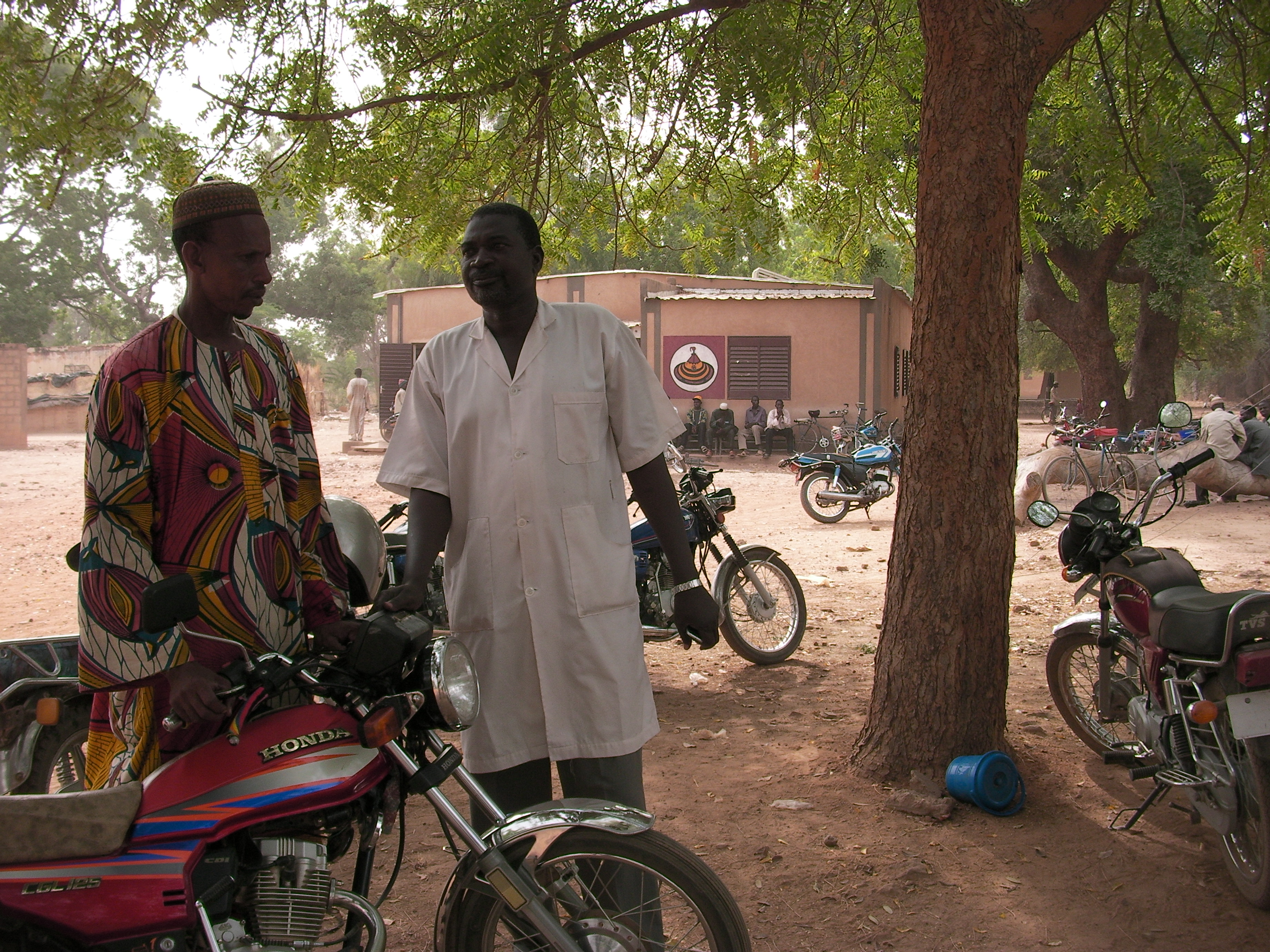 Mamane, on the left, one of our volunteers, and the Major (Nurse Practitioner) of the Health Center. Good men to work with.